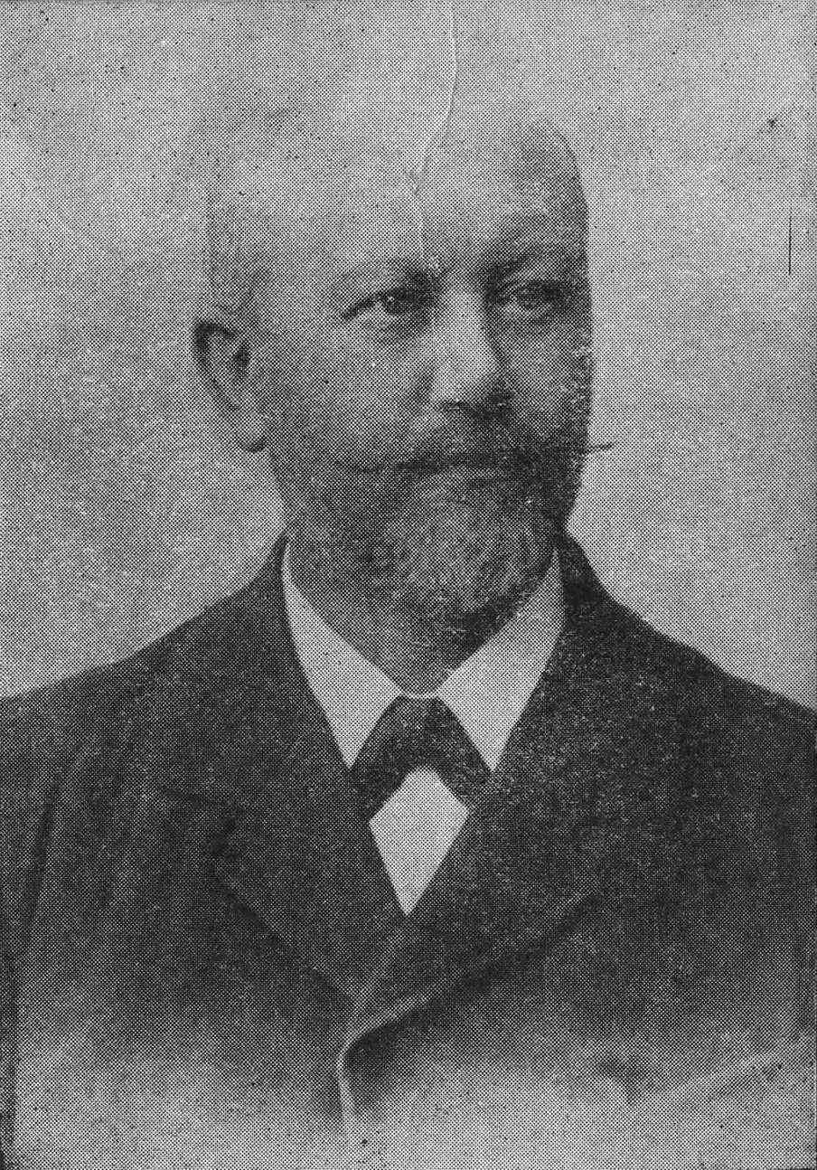 Portrait of Josef Uličný.